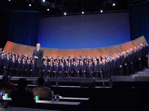 The Vocal Majority chorus. Montreal, Quebec